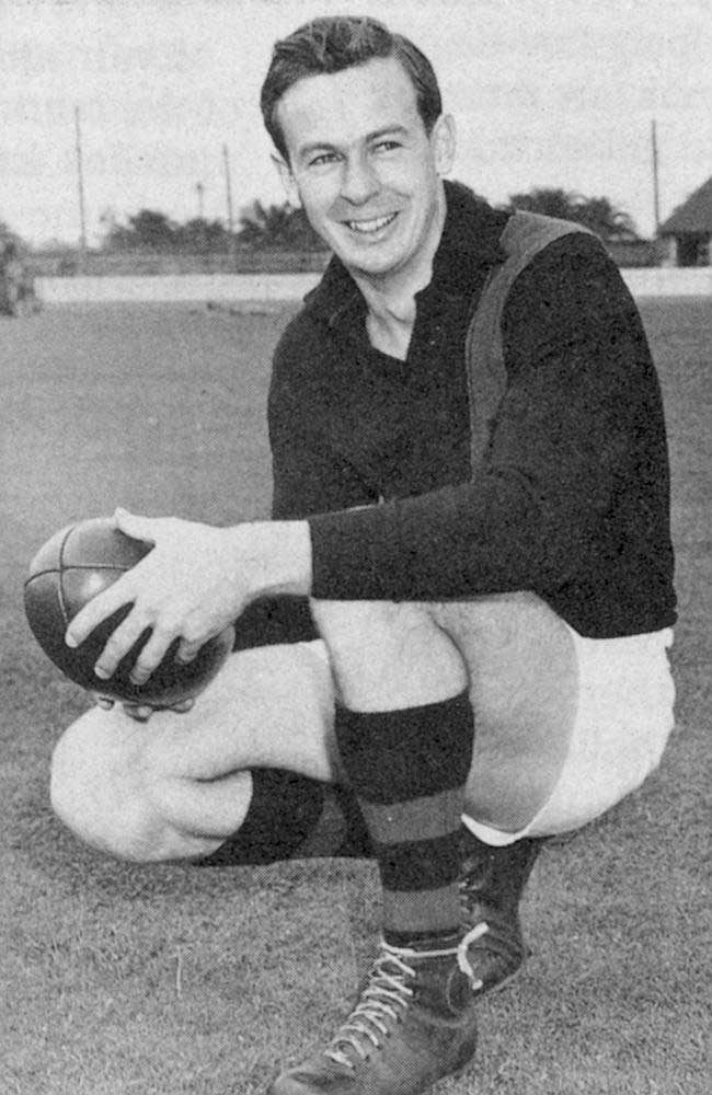 Australian rules football player, John Coleman.